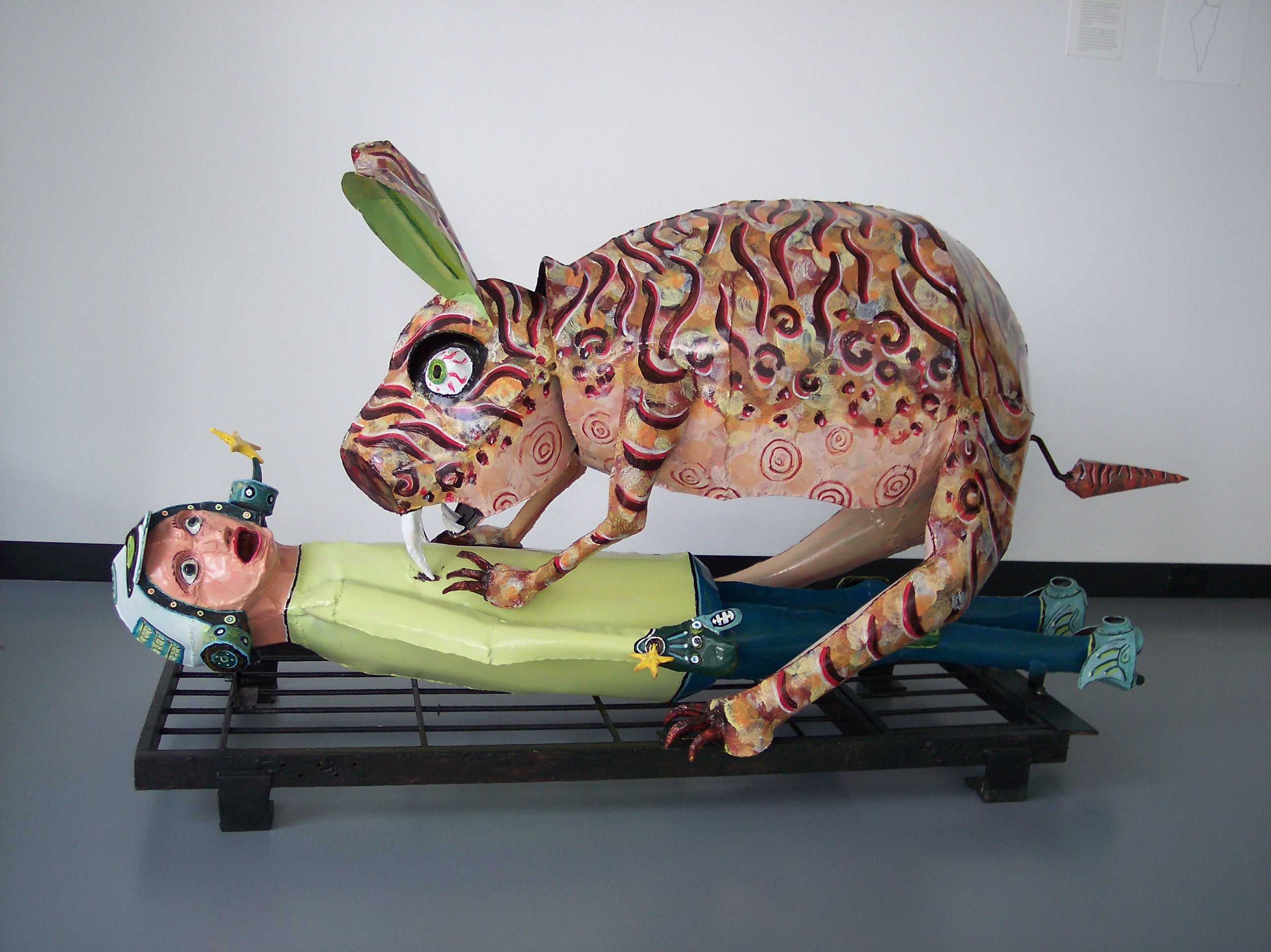 Bill Reid's metal sculpture of a bunny eating an astronaut, inspired by the Tipu's Tiger automaton in the V&A Museum.